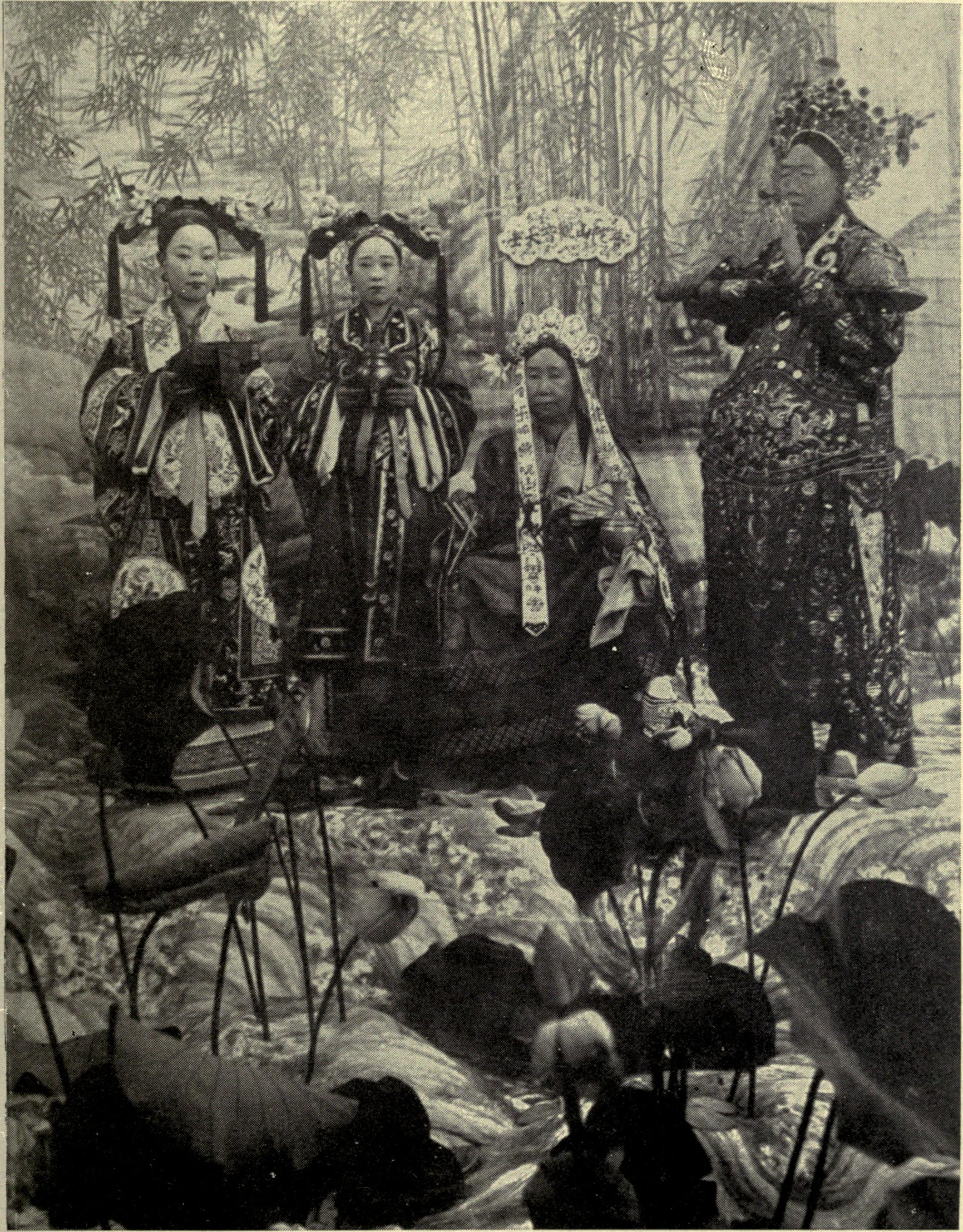 The Empress Dowager, representing the Goddess of Mercy (Guanyin), supported by Li Lien-Ying (right) and two court ladies.